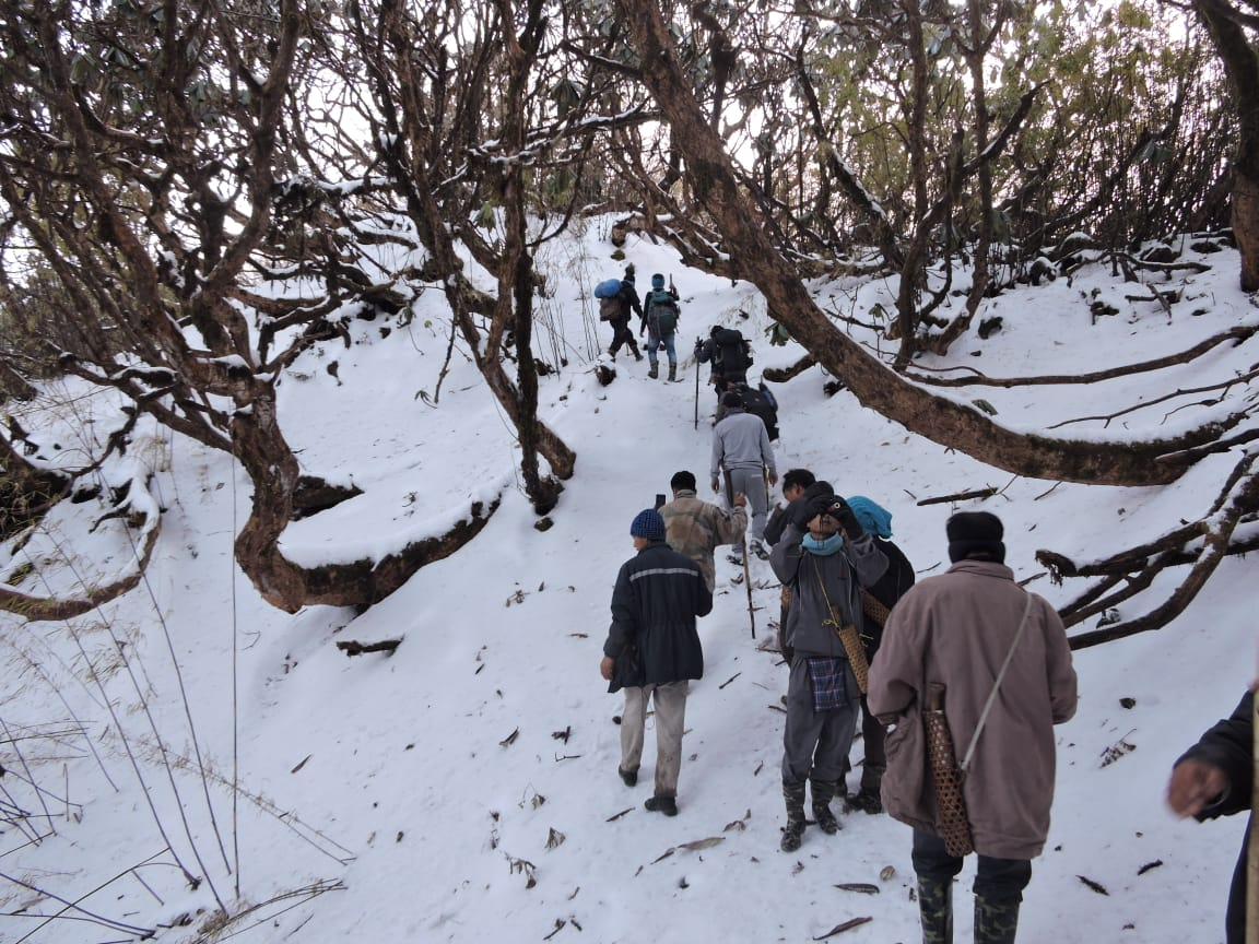 Snow covered perennial in Yingkiong